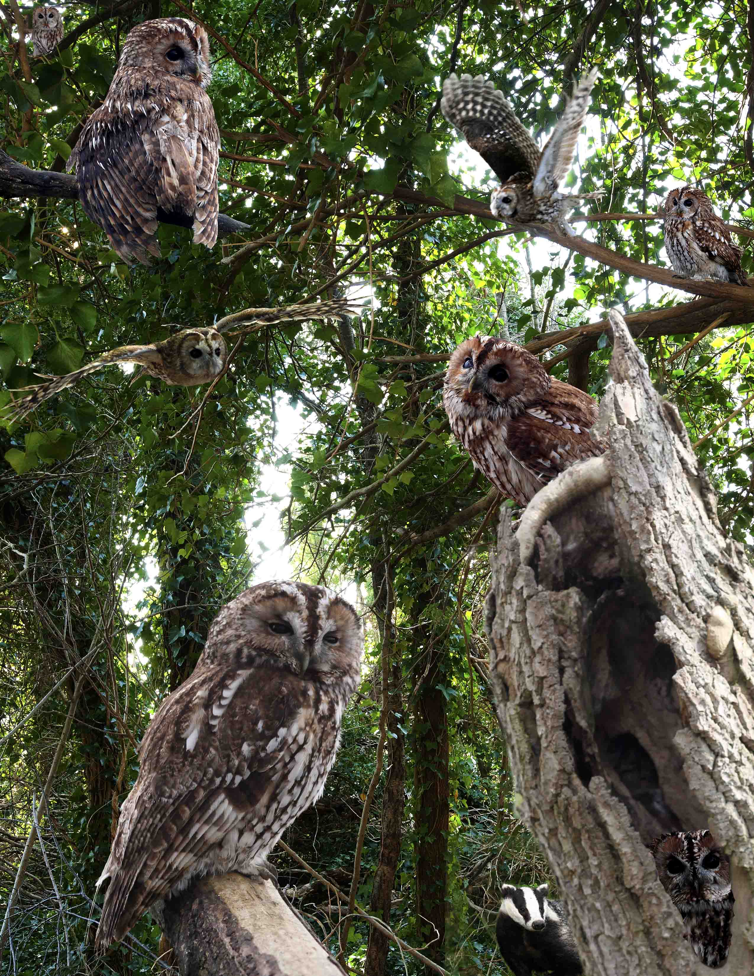 Tawny Owl from the Crossley ID Guide Britain and Ireland